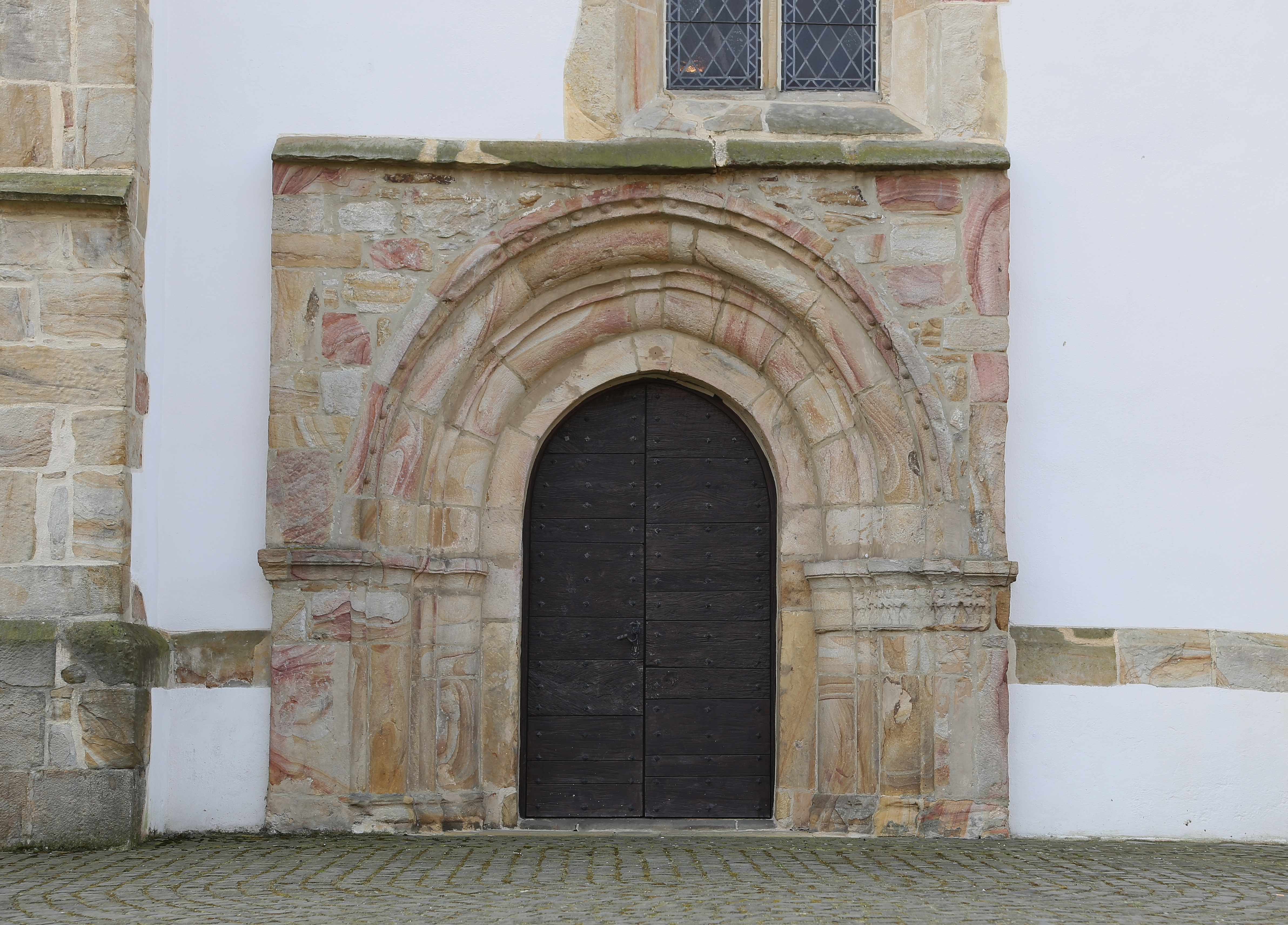 The northern portal of the Protestant church of Mettingen, Kreis Steinfurt, North Rhine-Westphalia, Germany. This portal in the late romanesque style dates from the 13th century.